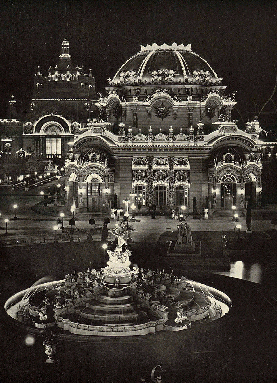 Temple of Music, Buffalo, New York, photo by C.D. Arnold, 1901